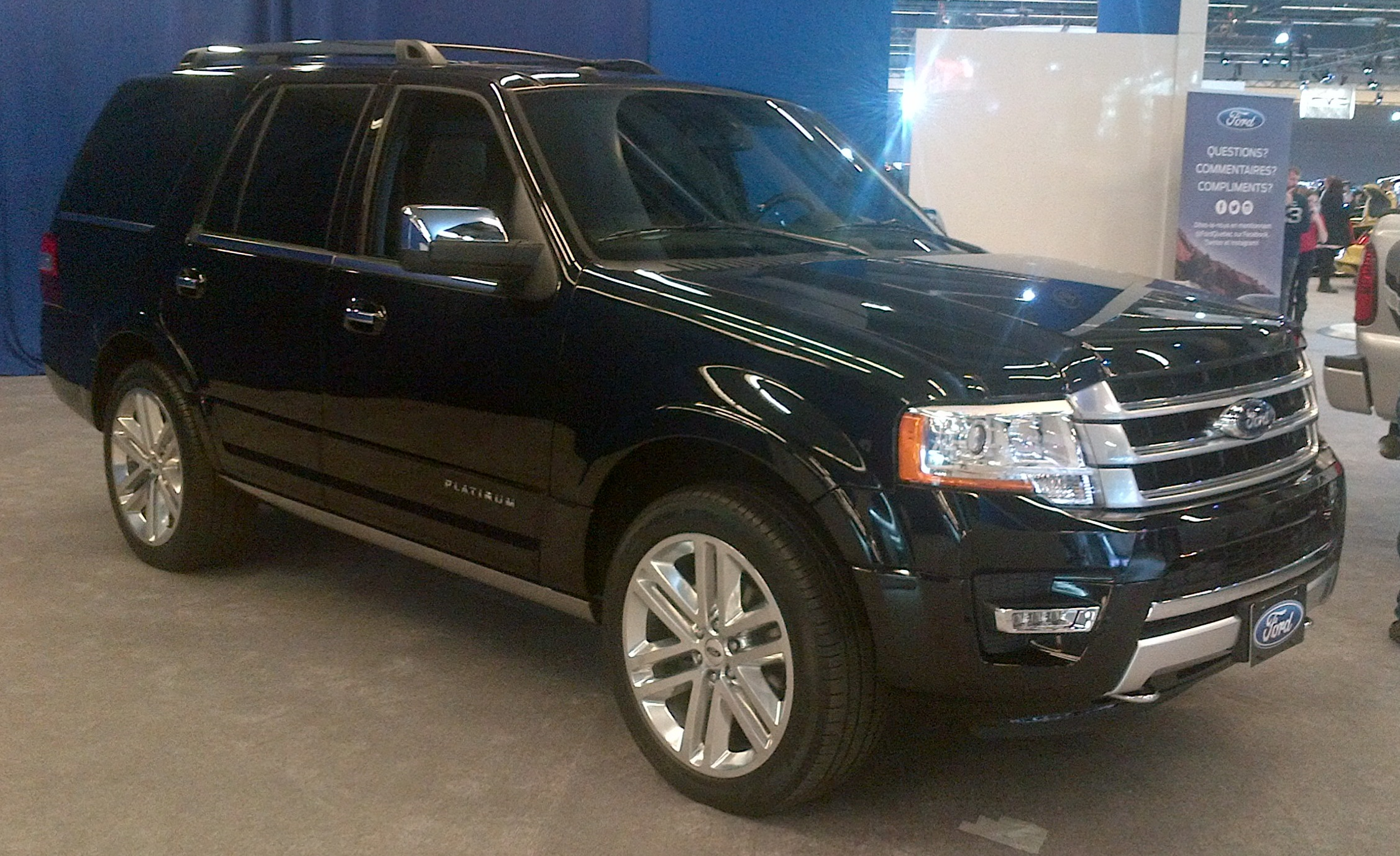 2016 Ford Expedition photographed in Montreal, Quebec, Canada at the Salon International de l’auto de Montréal 2016.